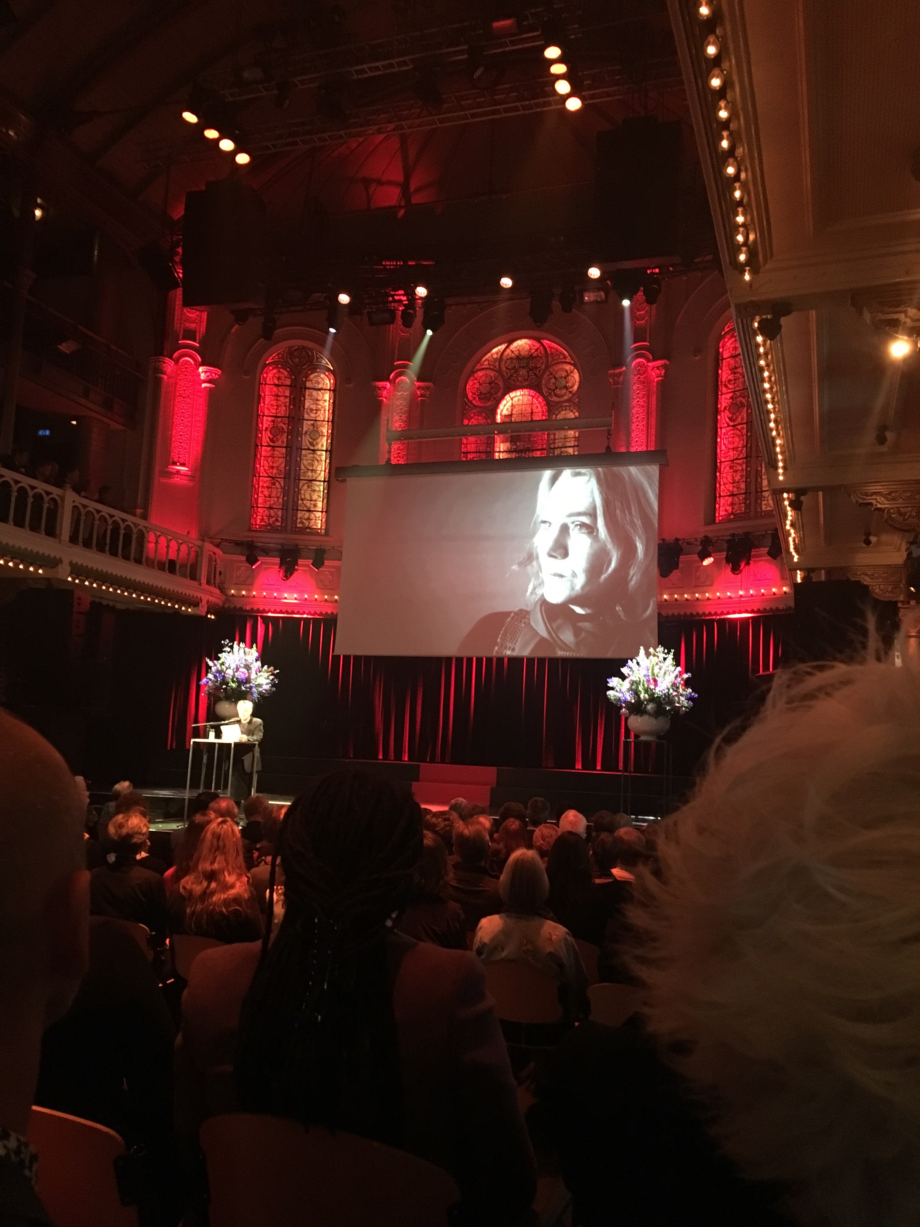 European Cultural Foundation Princess Margriet for Culture, Amsterdam, Netherlands - May 9, 2017